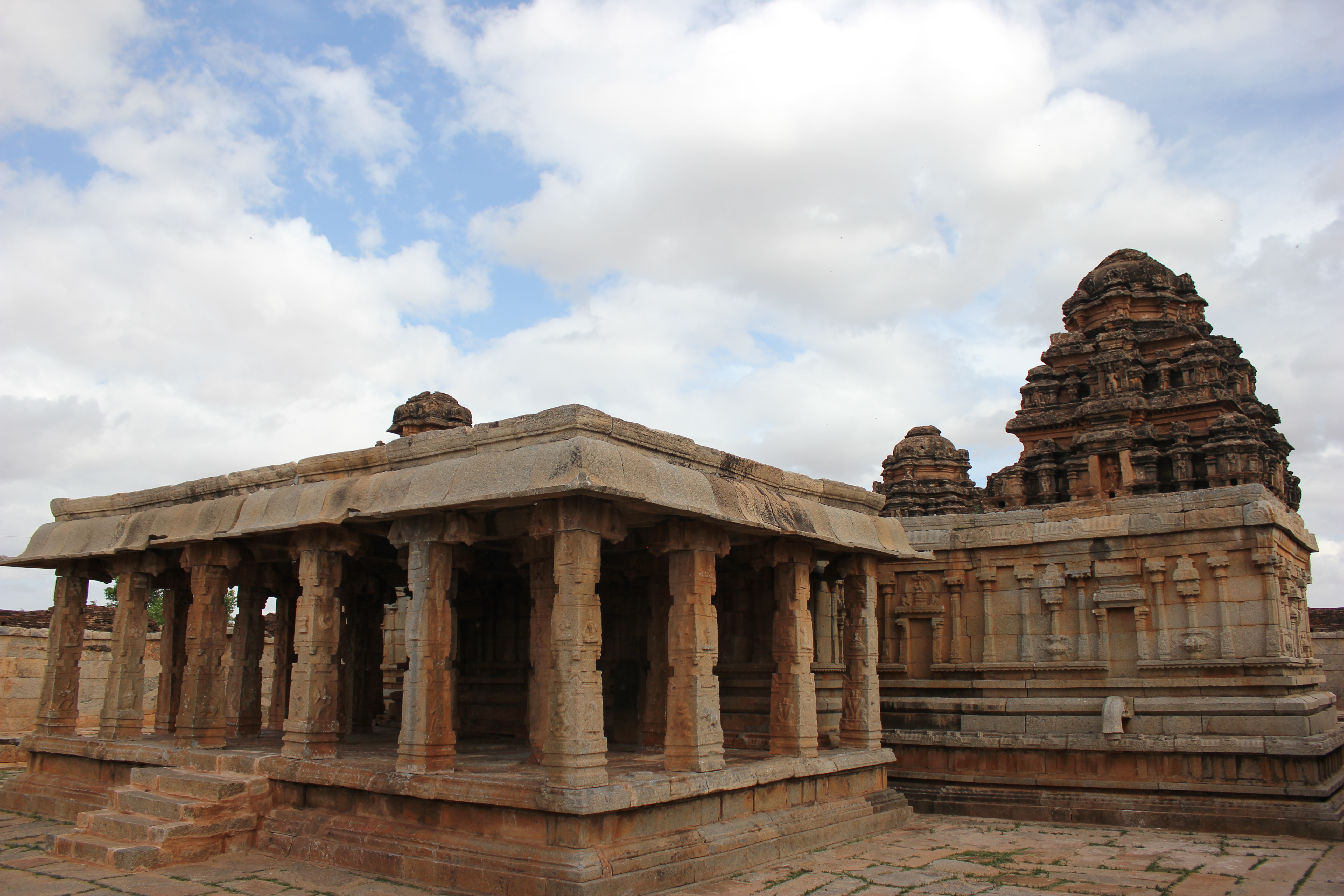 This photograph was taken by me at the Shiva temple in Timmalapura, Bellary district, Karnataka state, India. The temple was constructed by a local chief in 1539 A.D., during the rule of King Achyuta Raya of the Vijayanagara Empire